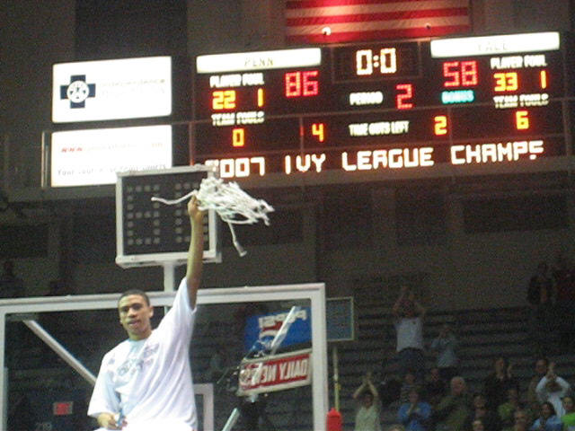 University of Pennsylvania senior Ibby Jaaber holds the net, which he cut from the rim, and sits on top of the rim after Penn defeated Yale 86-68 on March 2, 2007 at the Palestra in Philadelphia. The win clinched the 2006-07 Ivy League championship and Penn's 25 Ivy crown overall. The Quakers took part in the NCAA Tournament for the 25th time.